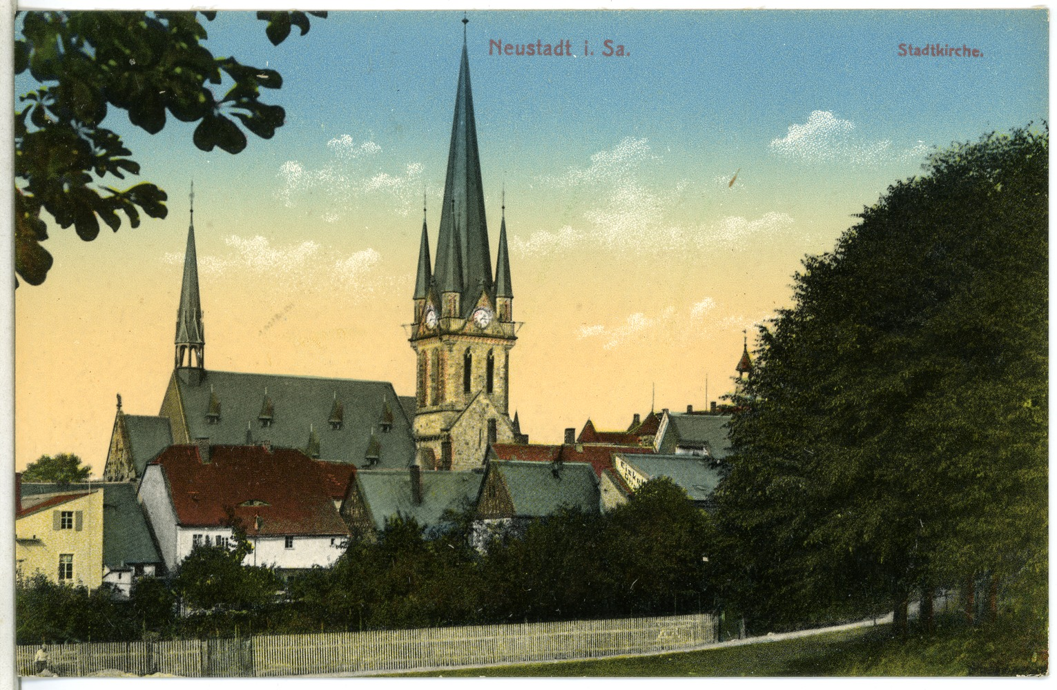 This postcard is from publisher Brück & Sohn in Meißen ( This postcard has a unique number 14155 and is available in a higher resolution at the publisher. This images was uploaded in a cooperation project between Wikipedians and the publisher.